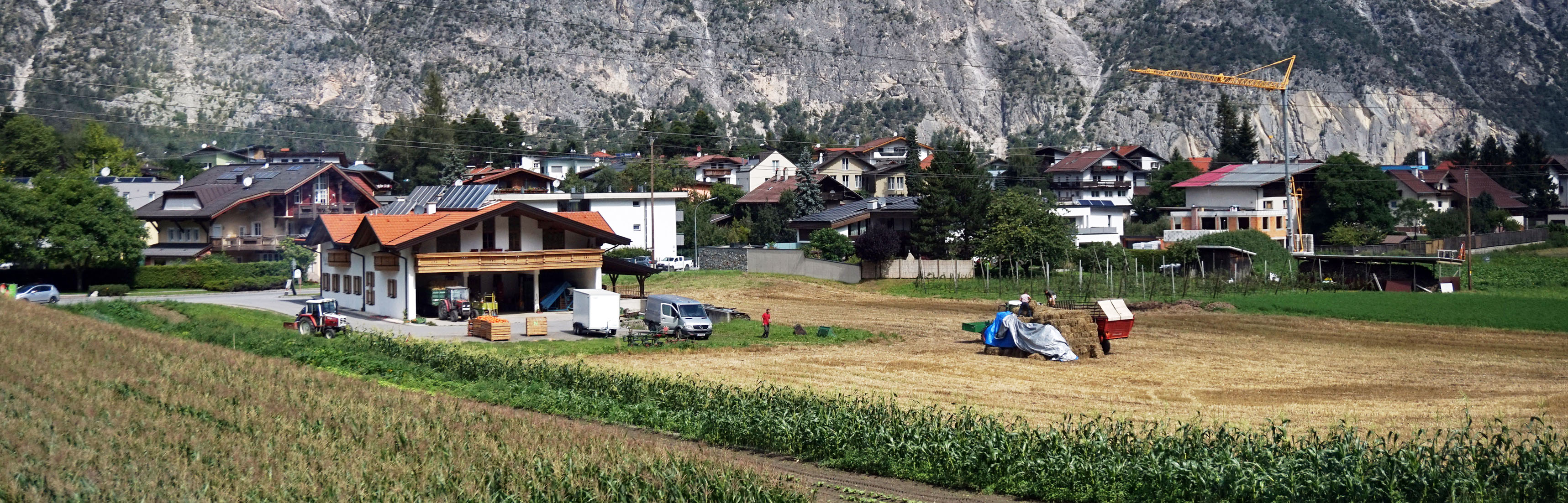 Haiming in Tyrol, Austria. This photograph was taken with a Sony Alpha a5000.